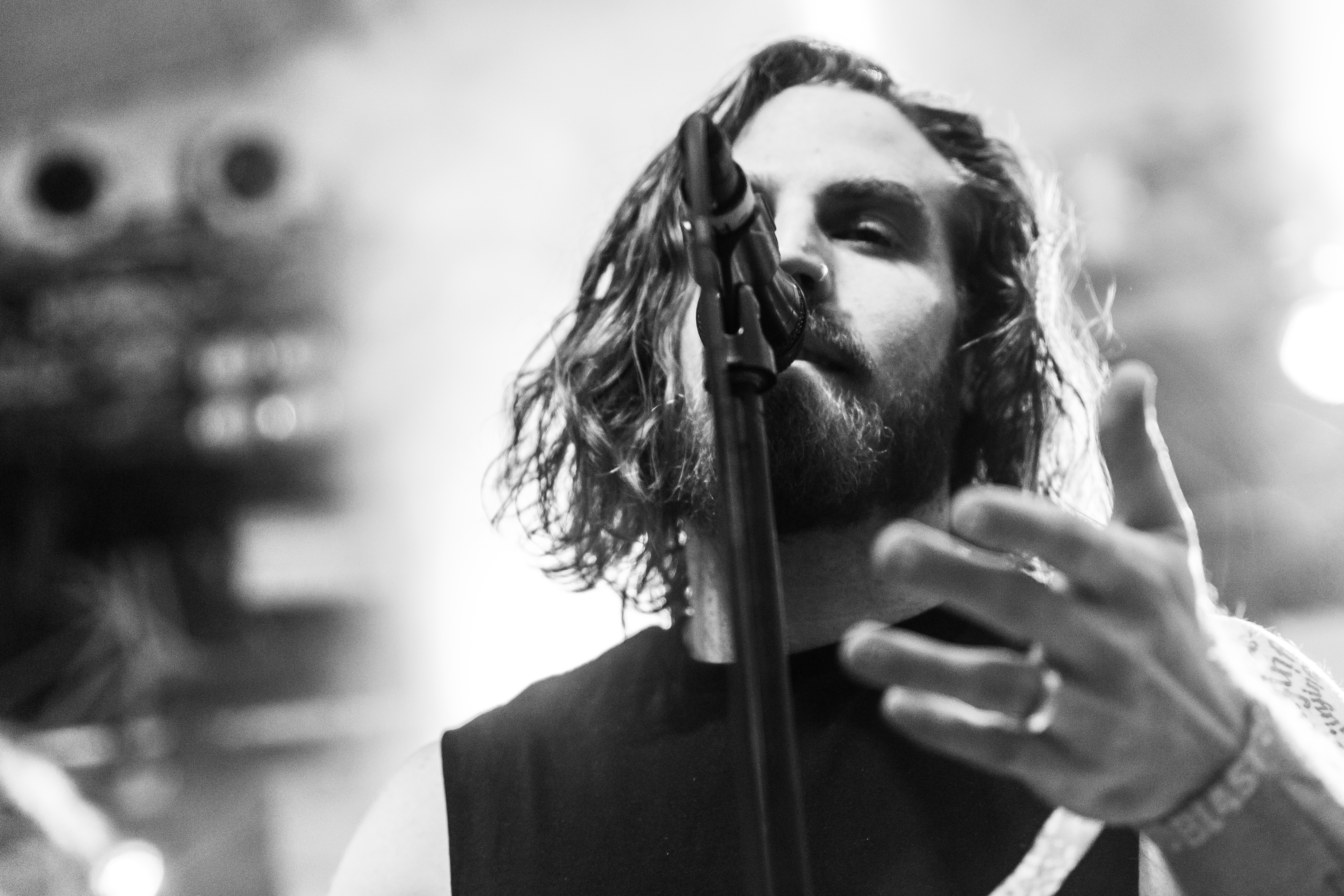 Caligula's Horse live at Euroblast Festival, Cologne 2018